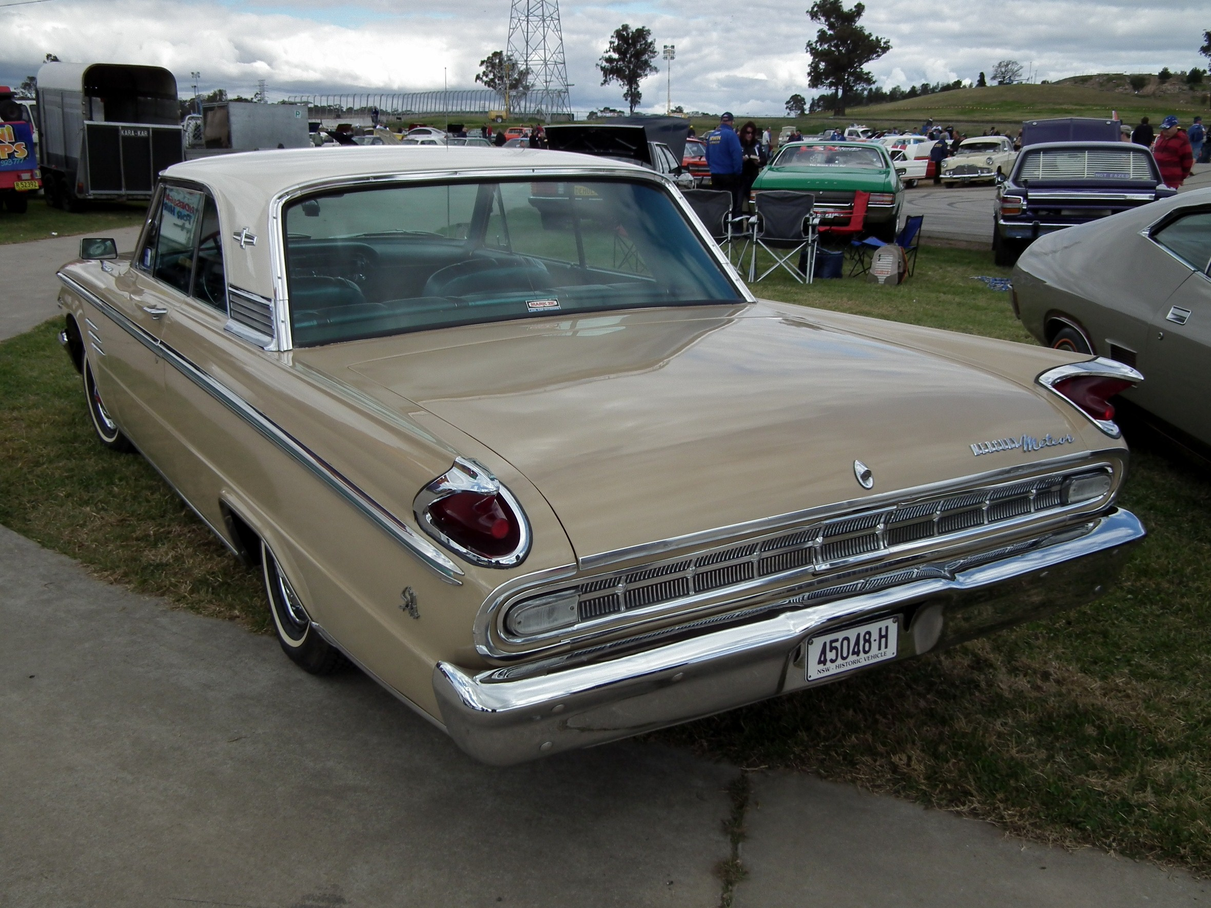 1963 Mercury Meteor Custom S33 coupe. Taken at the 2012 New South Wales All Ford Day, held at Sydney Motorsport Park (formerly Eastern Creek Raceway).